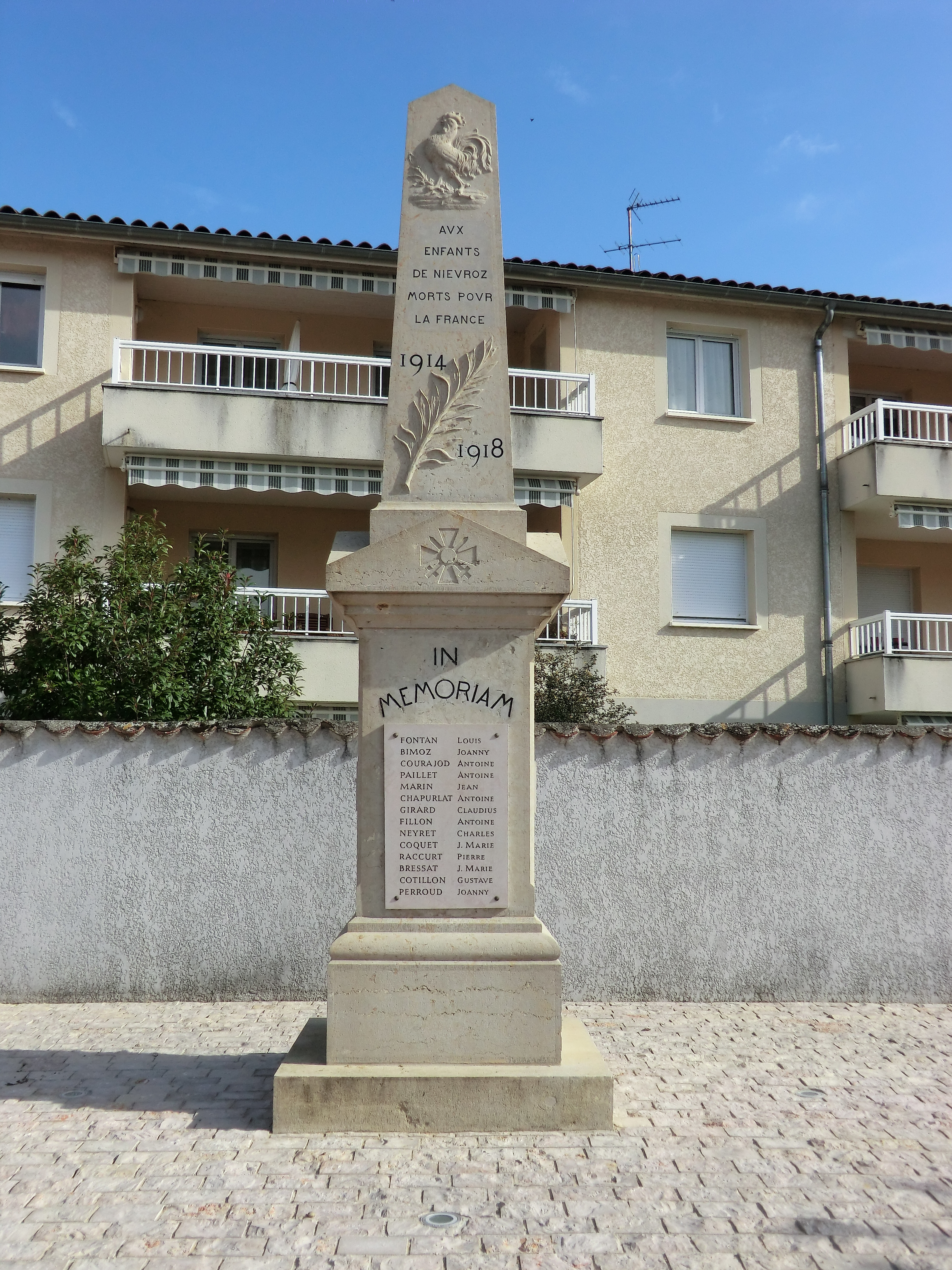 War memorial of Niévroz.